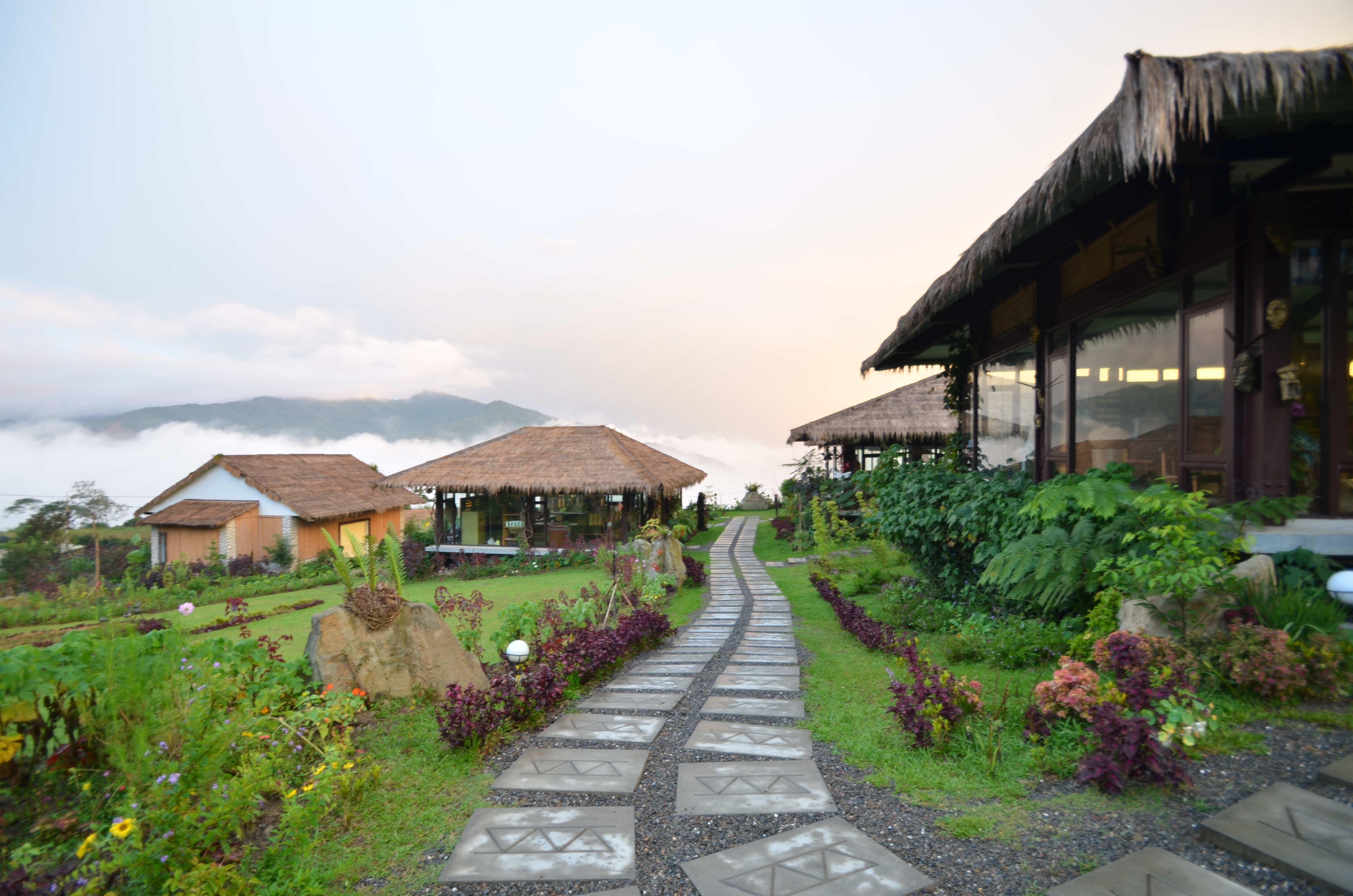 Alishan Tsou cultural tribe a beautiful landscape picture - taken in Taiwan Alishan.